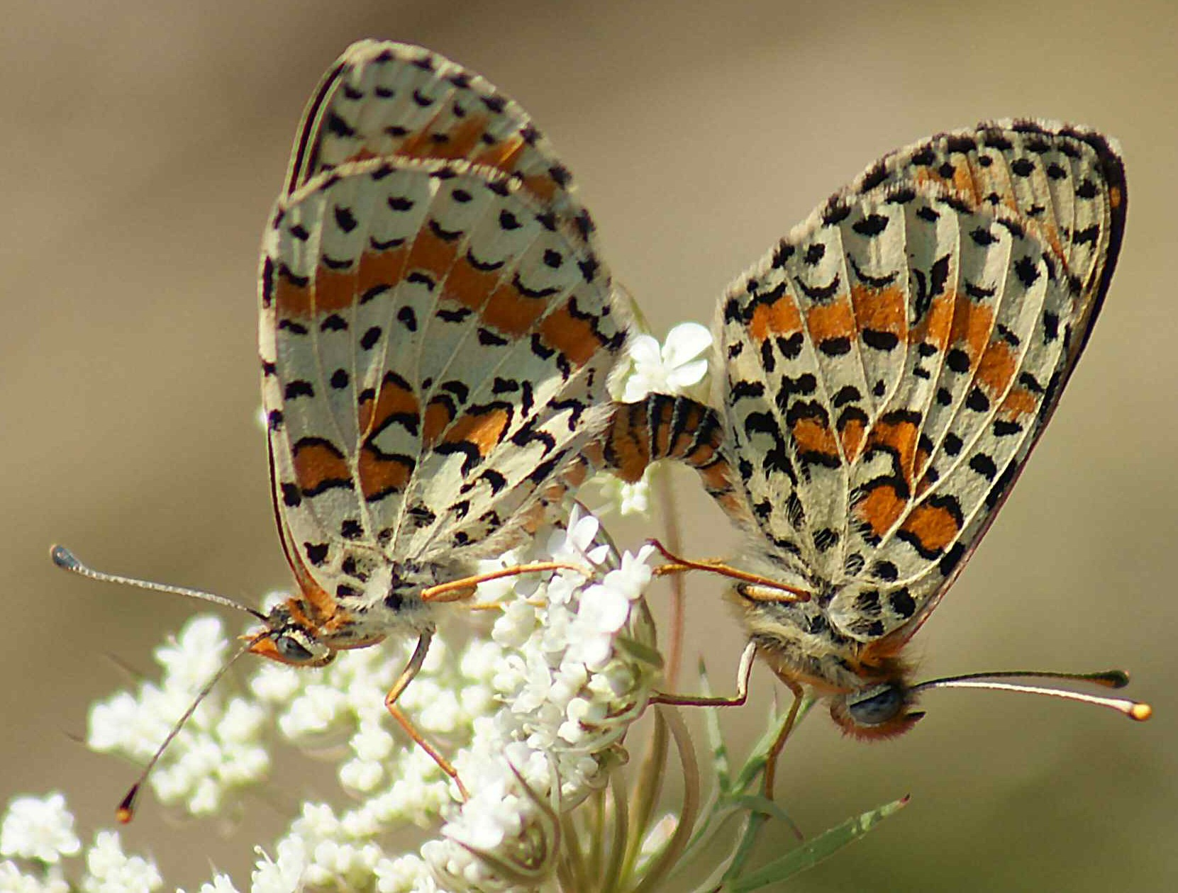 Mating Pair of Spotted Fritillaries on Greater Pignut, Dordogne, France.